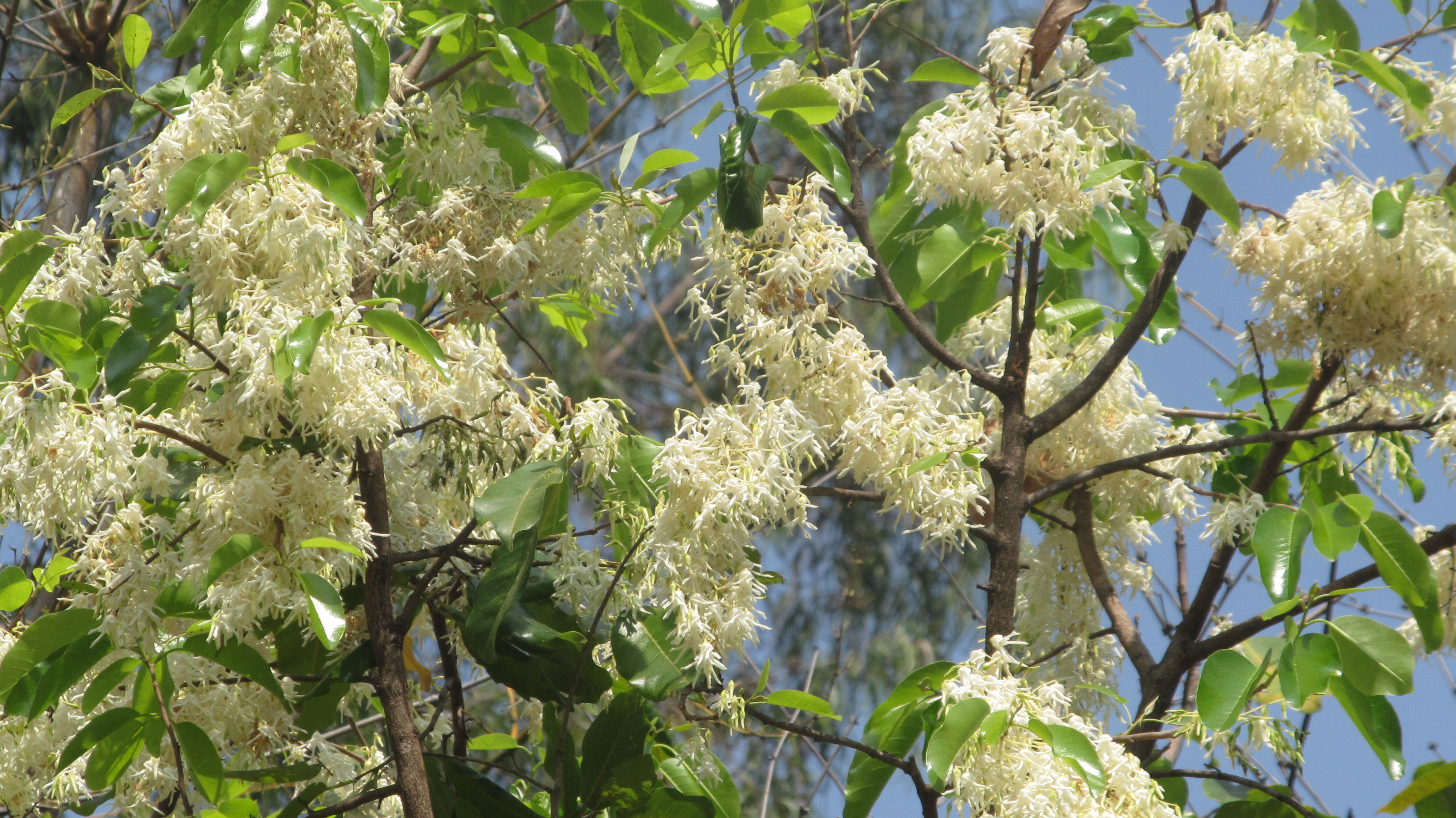 Shorea roxburghii flowers